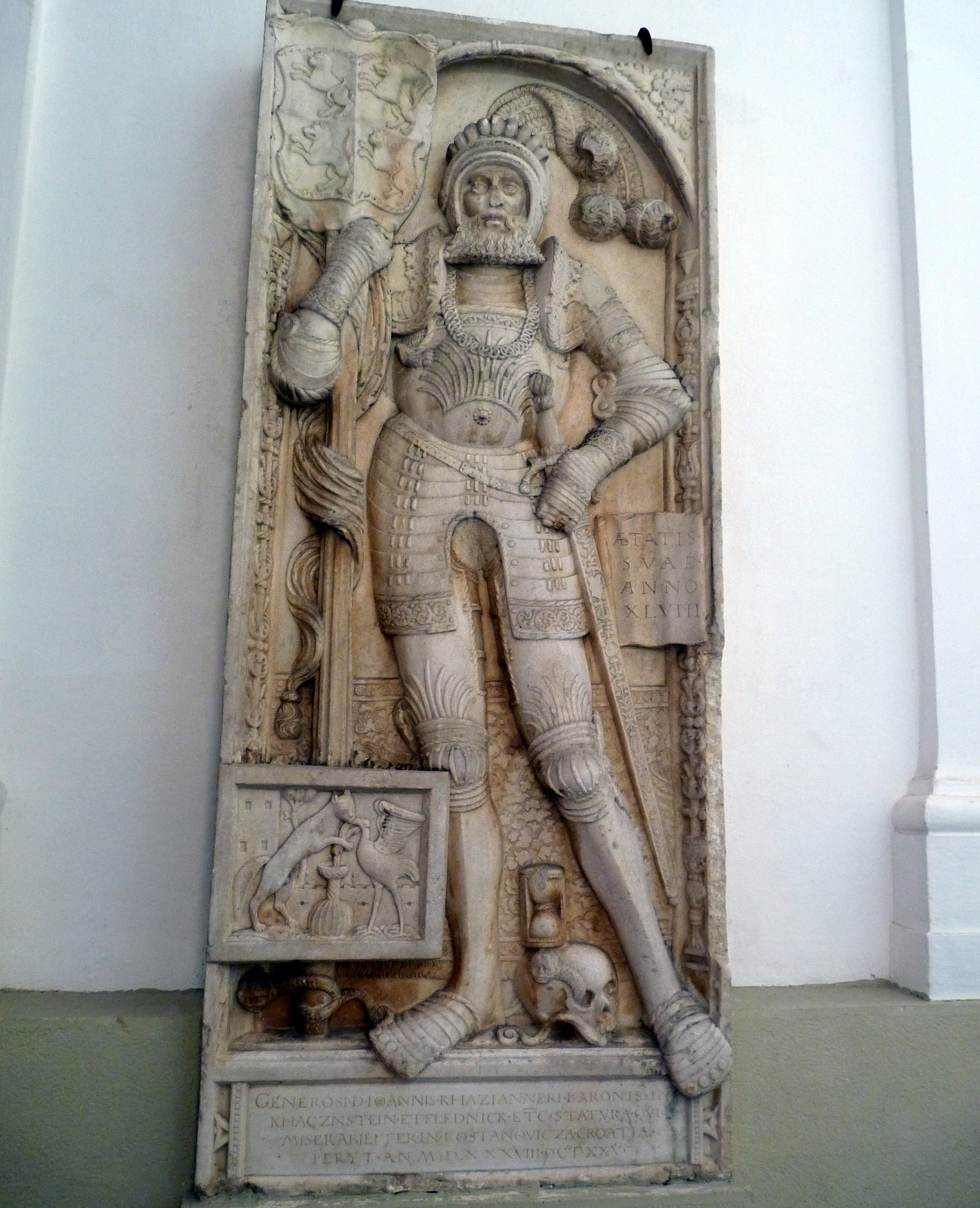 Ivan Kacijanar, Gornji Grad